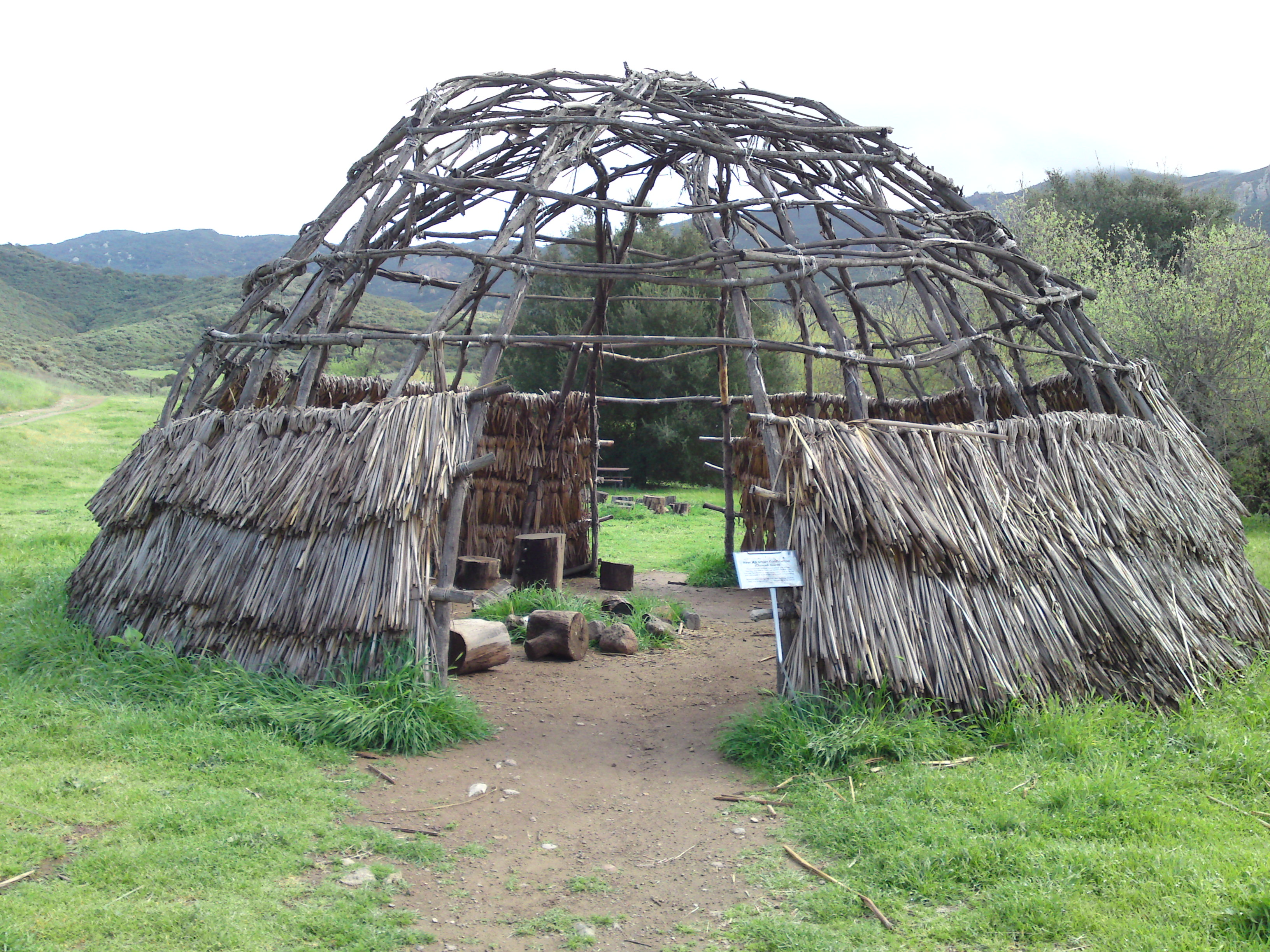 Reconstructed Chumash house at the Satwiwa Natural Area once known as Rancho Guadalasca